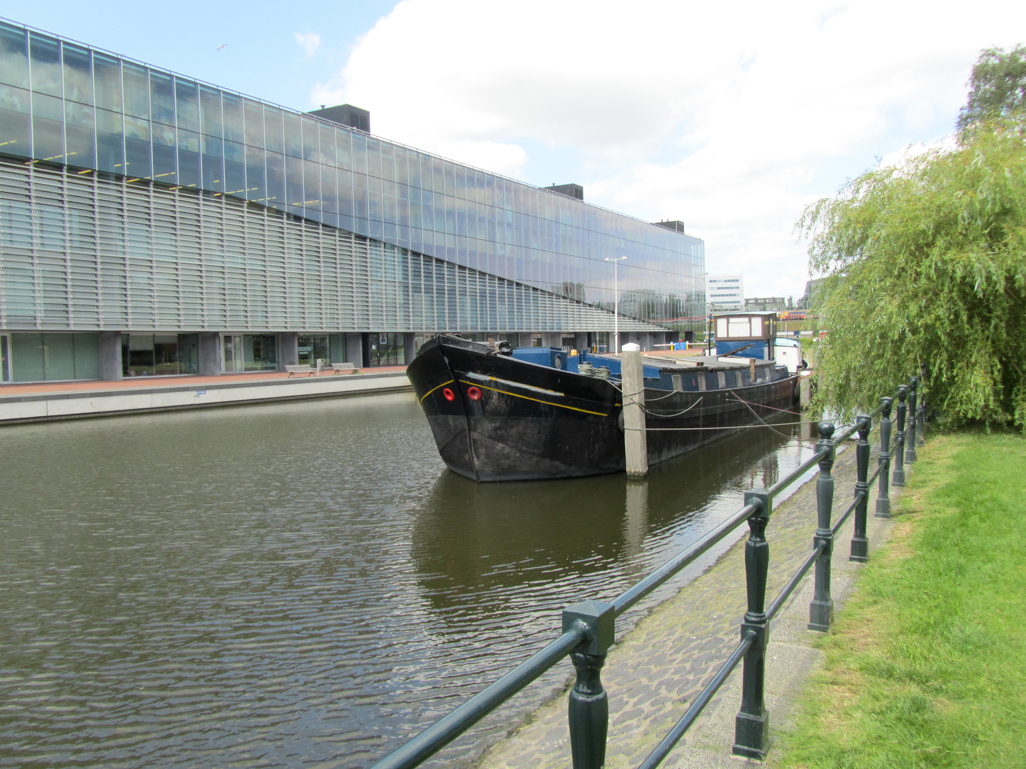 The northern end of Oostenburgervaart canal in Amsterdam, with the large INIT office building on Oostenburgereiland in the background